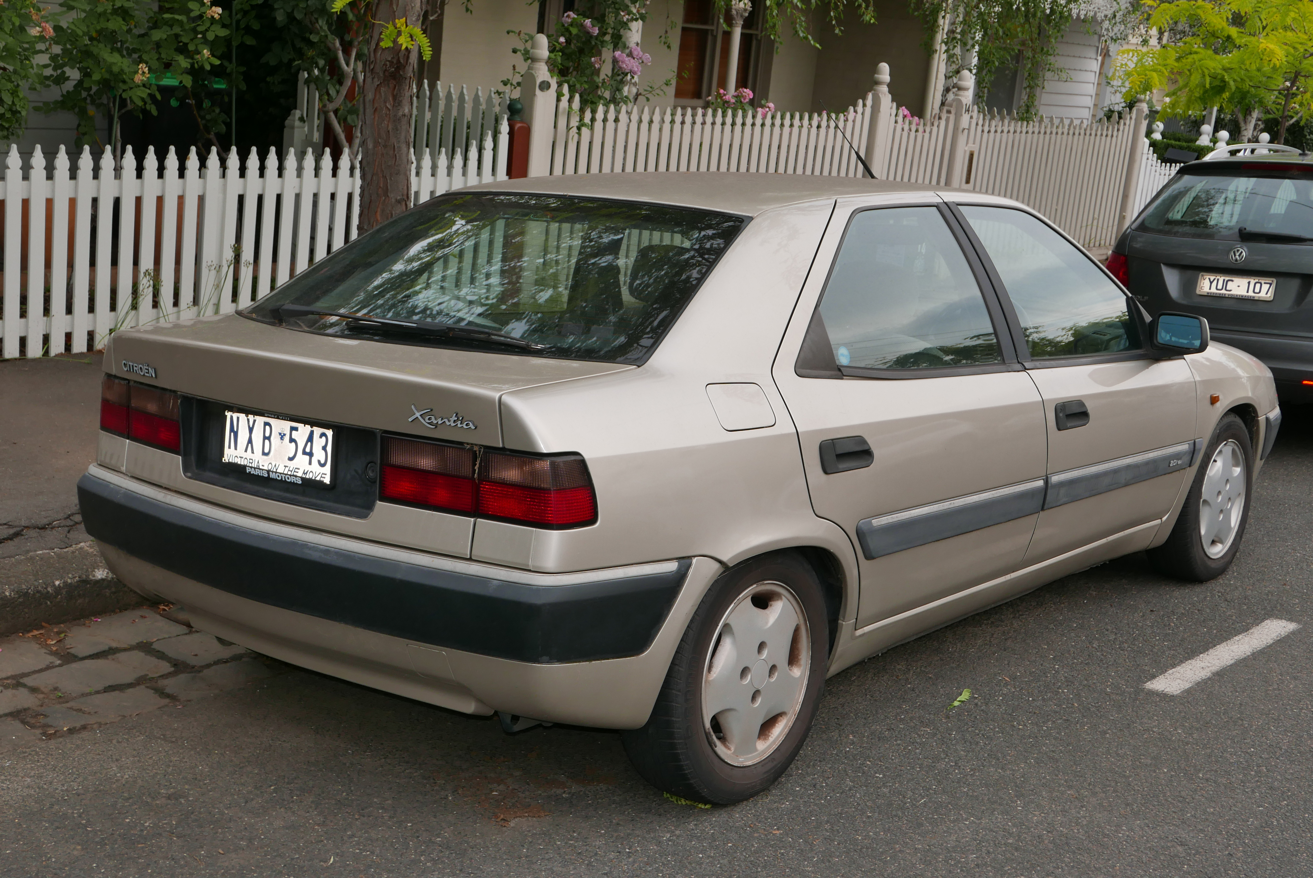 1996 Citroën Xantia VSX hatchback. Photographed in Flemington, Victoria, Australia. Vehicle registration enquiry results Jurisdiction Victoria Registration NXB543 Chassis code VF7X19C00009C1372 Engine code 10HJH43001474 Compliance date 1996-06 Year of manufacture 1996